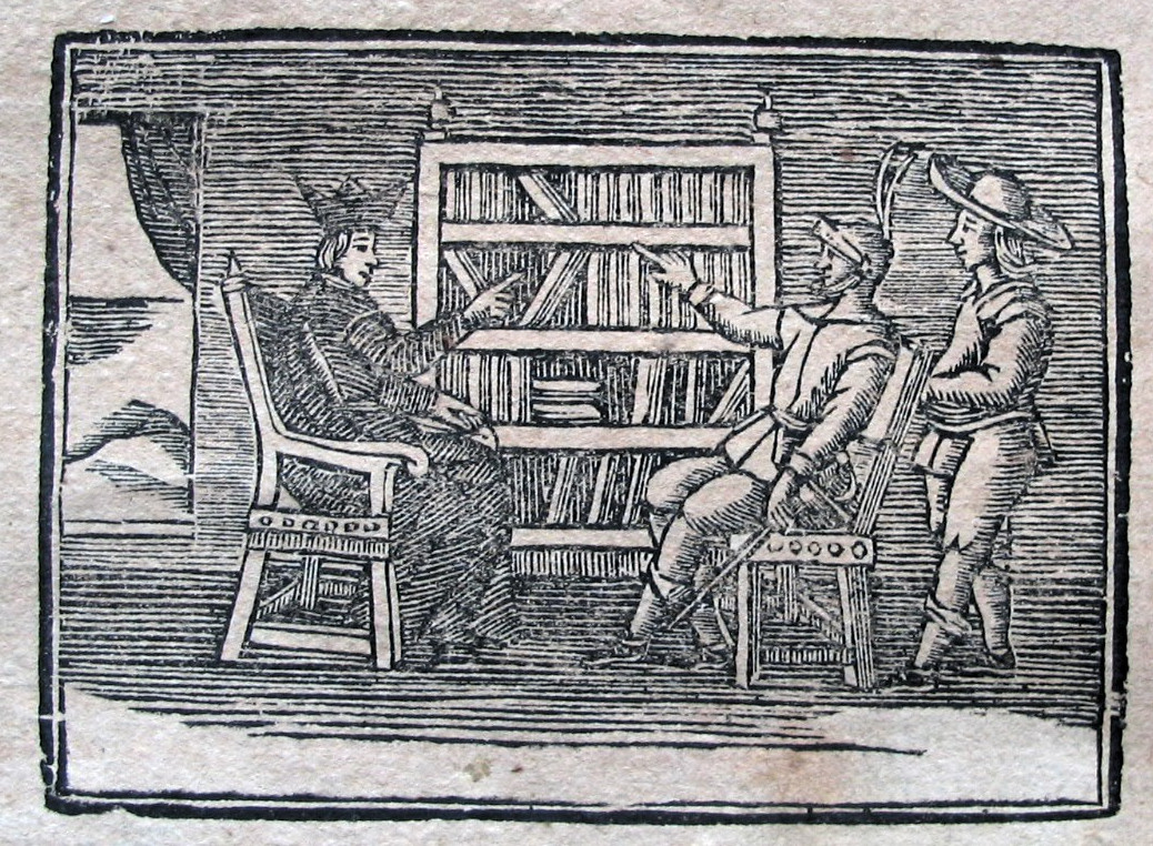 Conversation of the priest with Don Quixote about his books. Woodcut from the 1741 edition